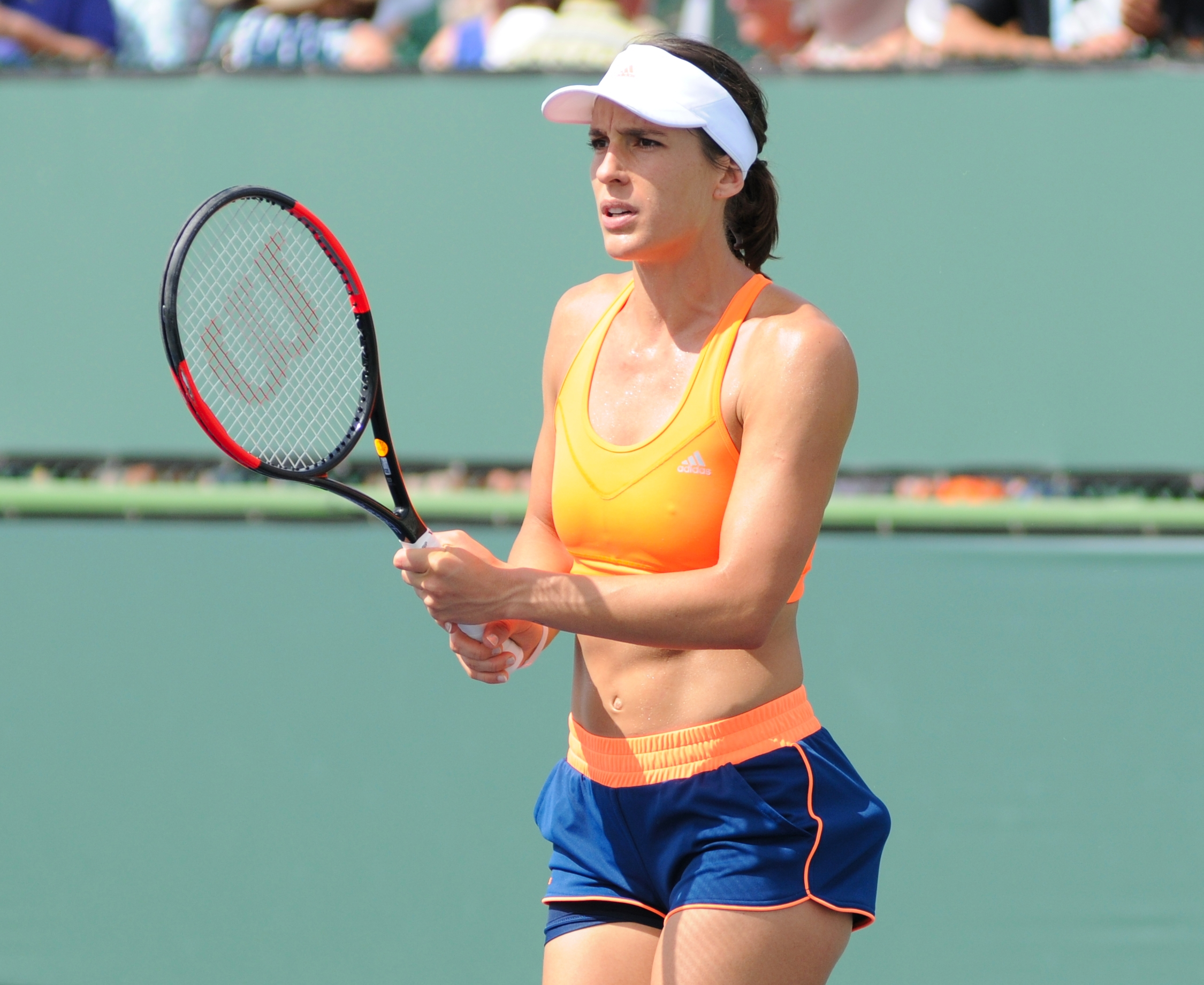 Andrea Petkovic in 2017 BNP Paribas Open